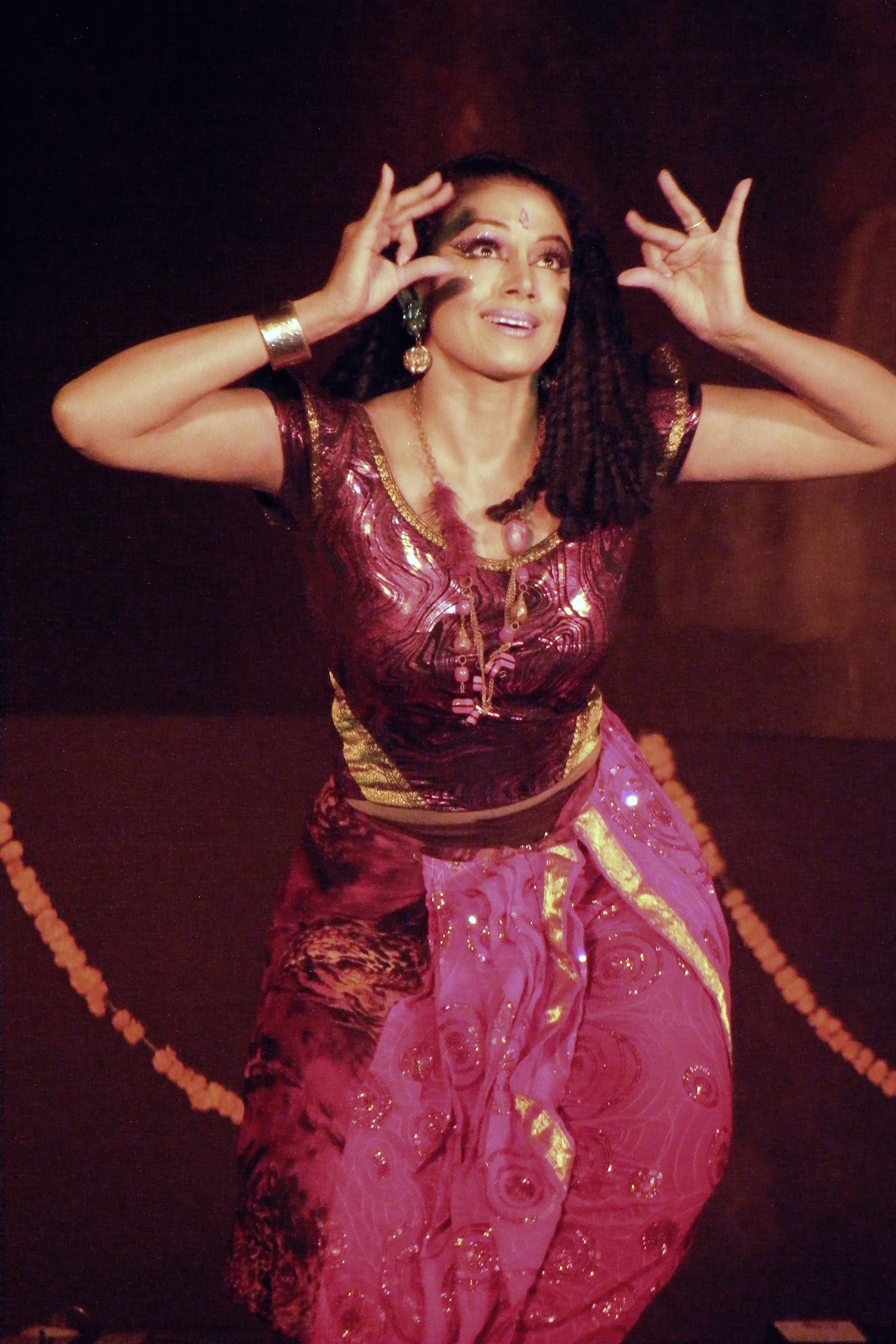 During one of the tandav performances, as Ravan is one of the greatest devotees of Lord Shiva. (Maya Ravan - performance at Shaniwar Wada Lawns, Pune - 22 Feb 2009)